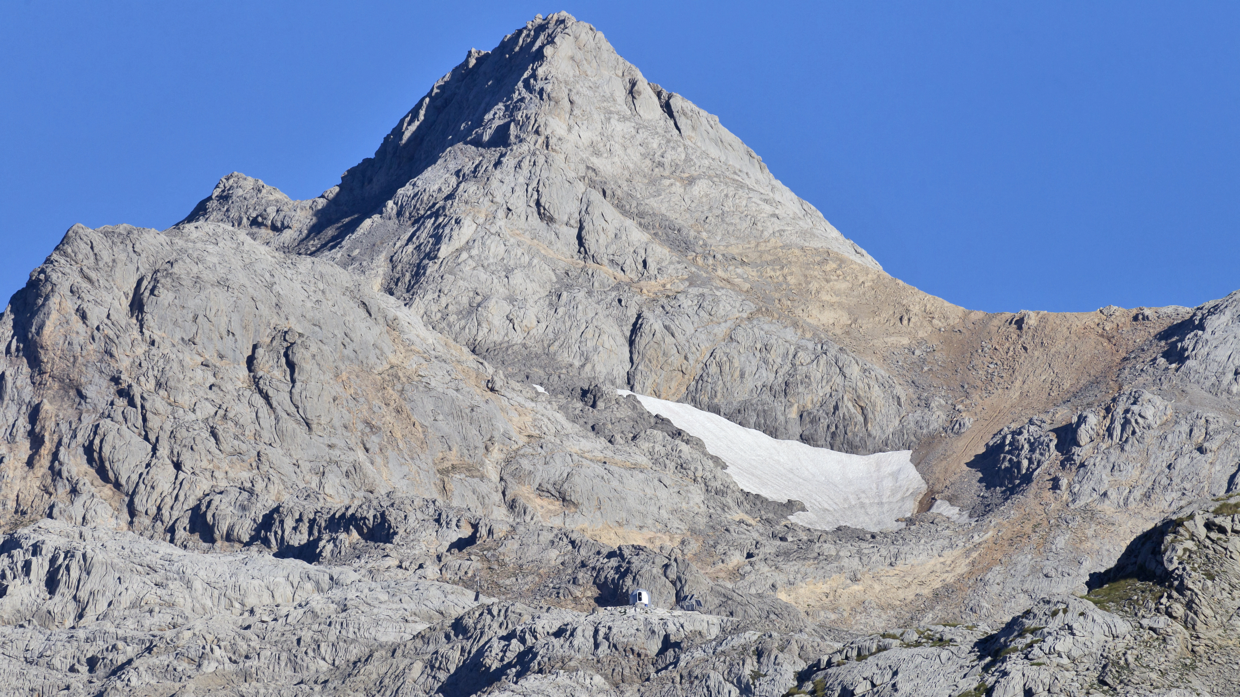 Pico Tesorero